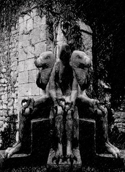 One of the Two Watchers of Cirith Ungol (The Lord of the Rings, Book VI).